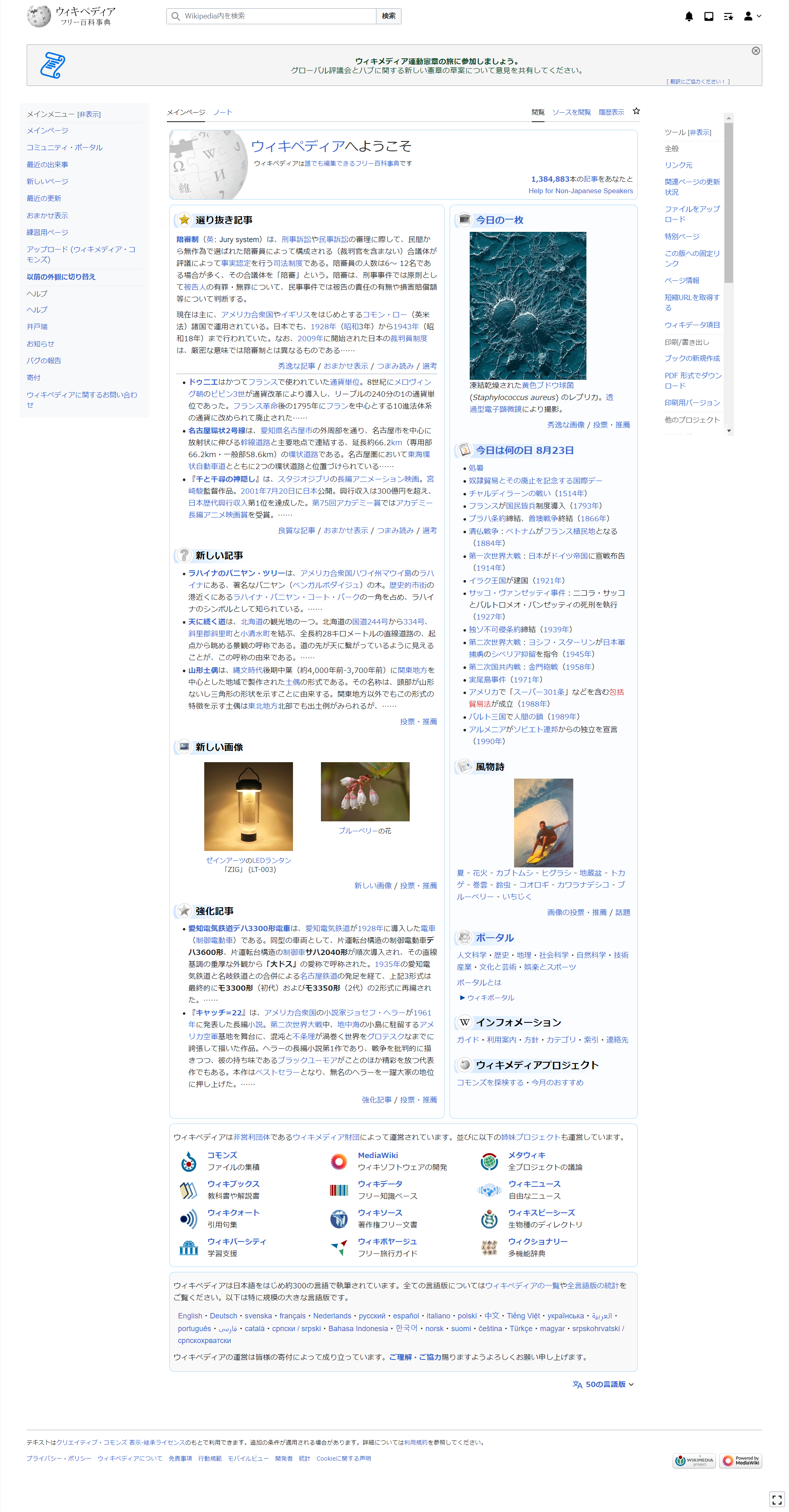 Current version of the Japanese Wikipedia